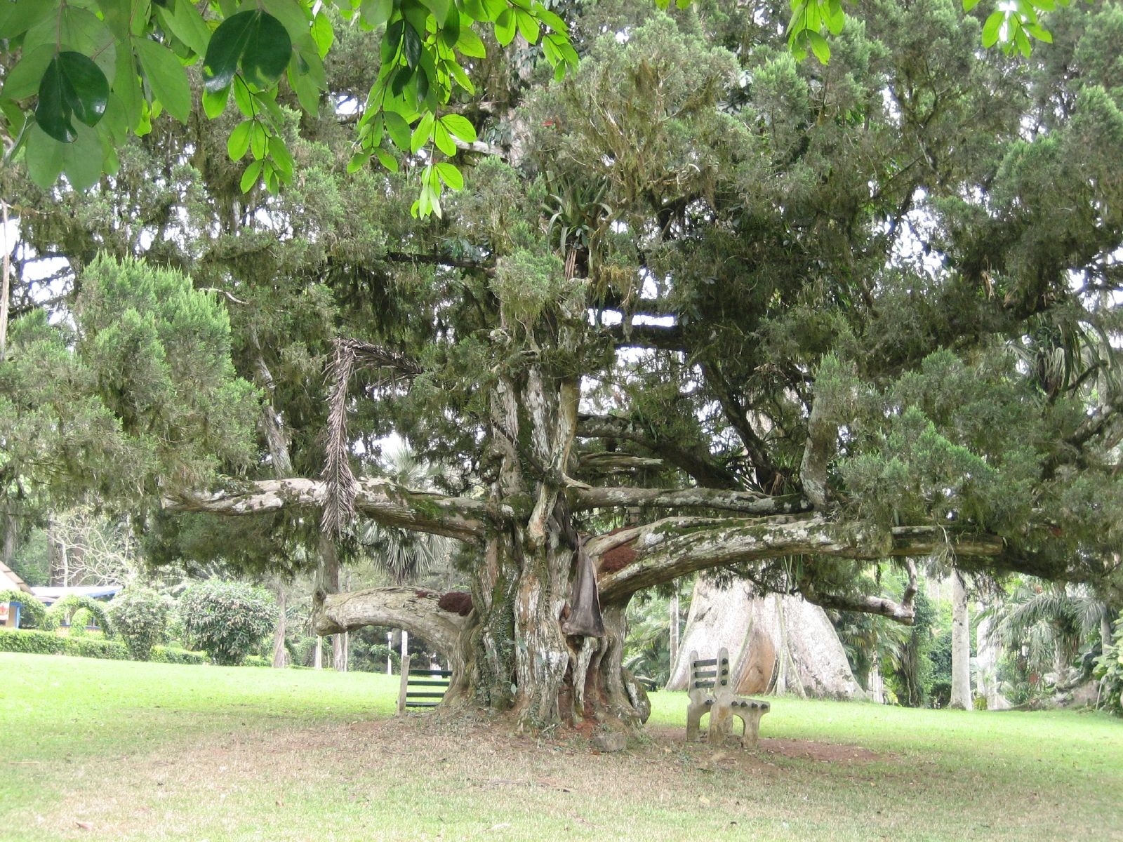 A tree in Aburi Botanical gardens